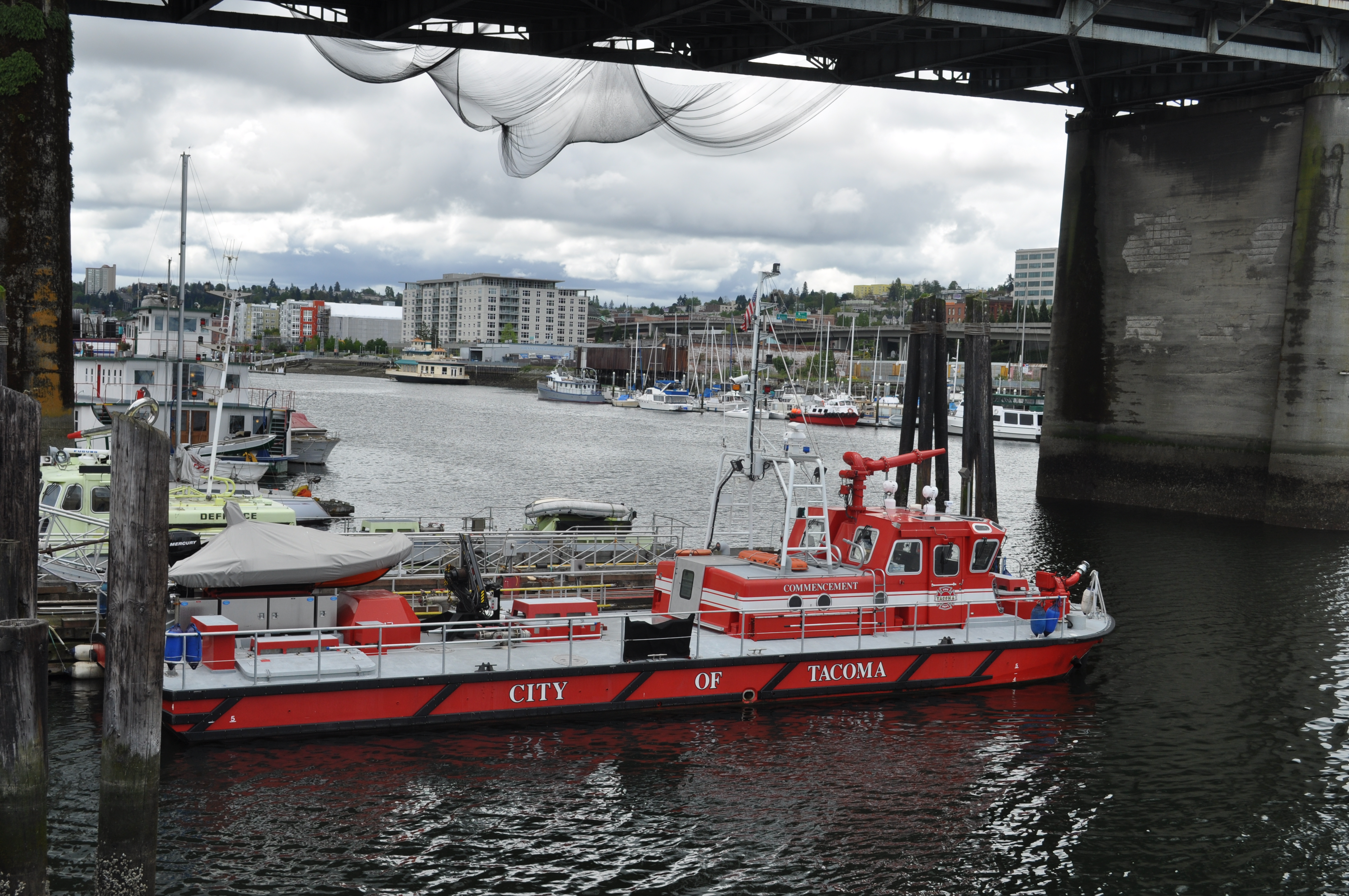 Fireboat Commencement moored at the fire station on the Thea Foss Waterway, just north of the 11th Street Bridge Tacoma, Washington.